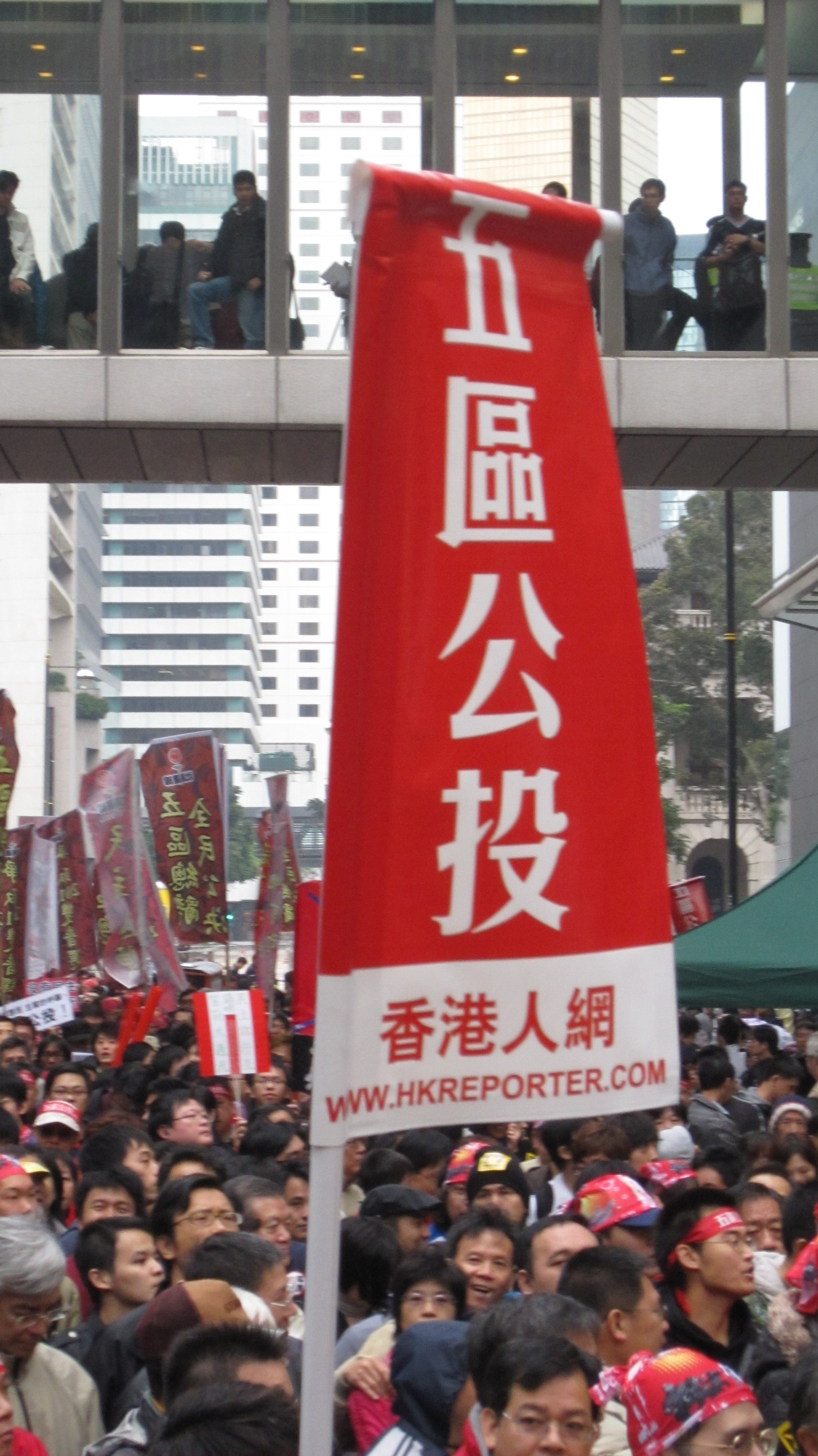 Five Constituencies Referendum